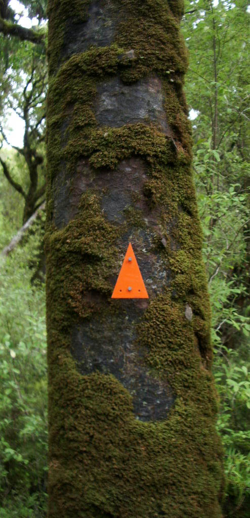 Track mark triangle on the North-West Circuit, Rakiura National Park, Stewart Island;On Adams Hill between Mason Bay and Doughboy Bay